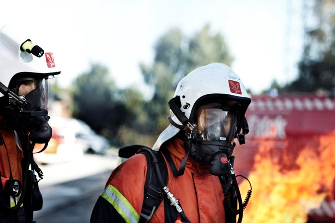 Fire Fighting Services